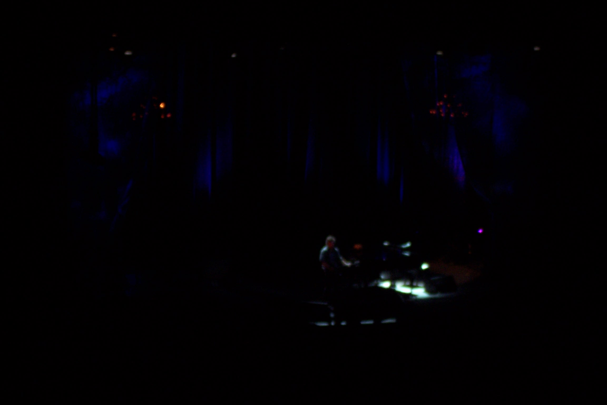 Bruce Springsteen's Devils & Dust Tour, Continental Airline Arena, 19 May 2005. Taken by me.